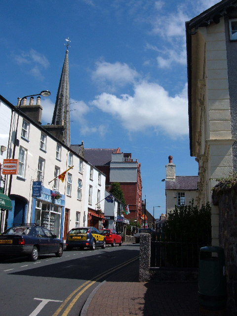 Stryd Penlan, Pwllheli The red brick building on the left is the theatre and cinema. On the opposite side of the road, the white building is the oldest pub, the Penlan Fawr, dating from the early seventeenth century. More photos of the area can be found on